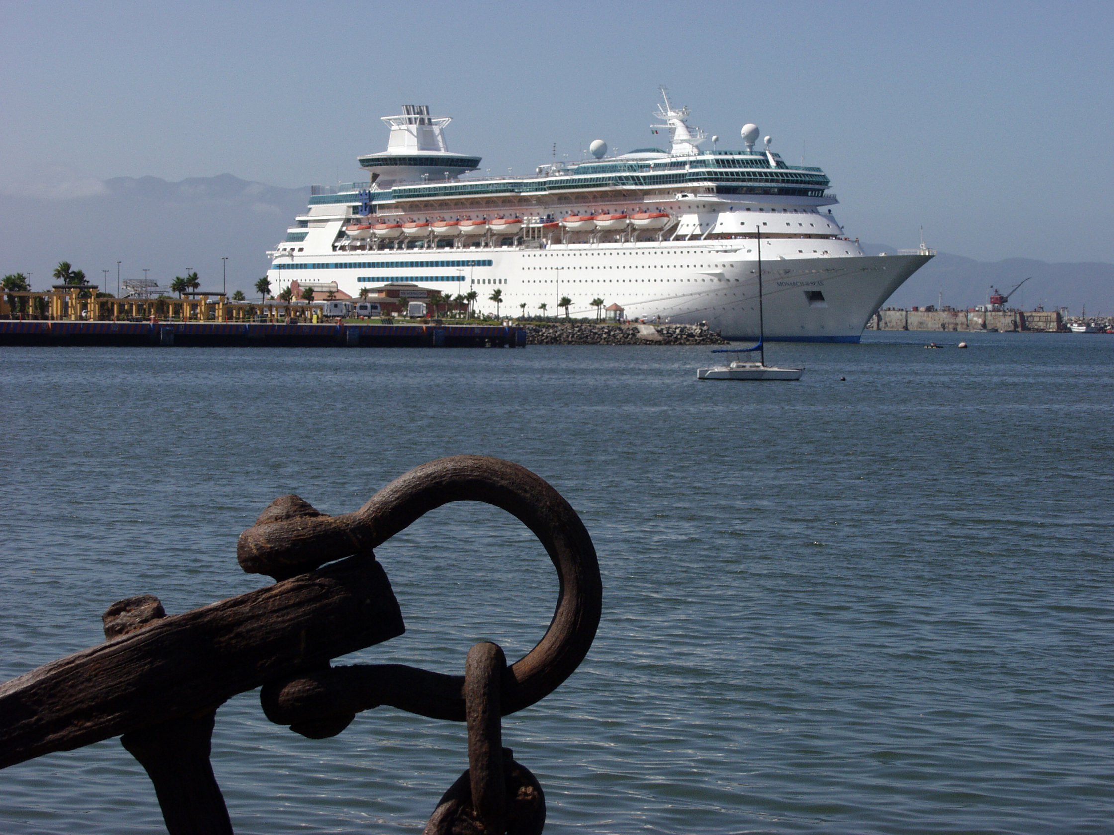 Cruise ship in Ensenada